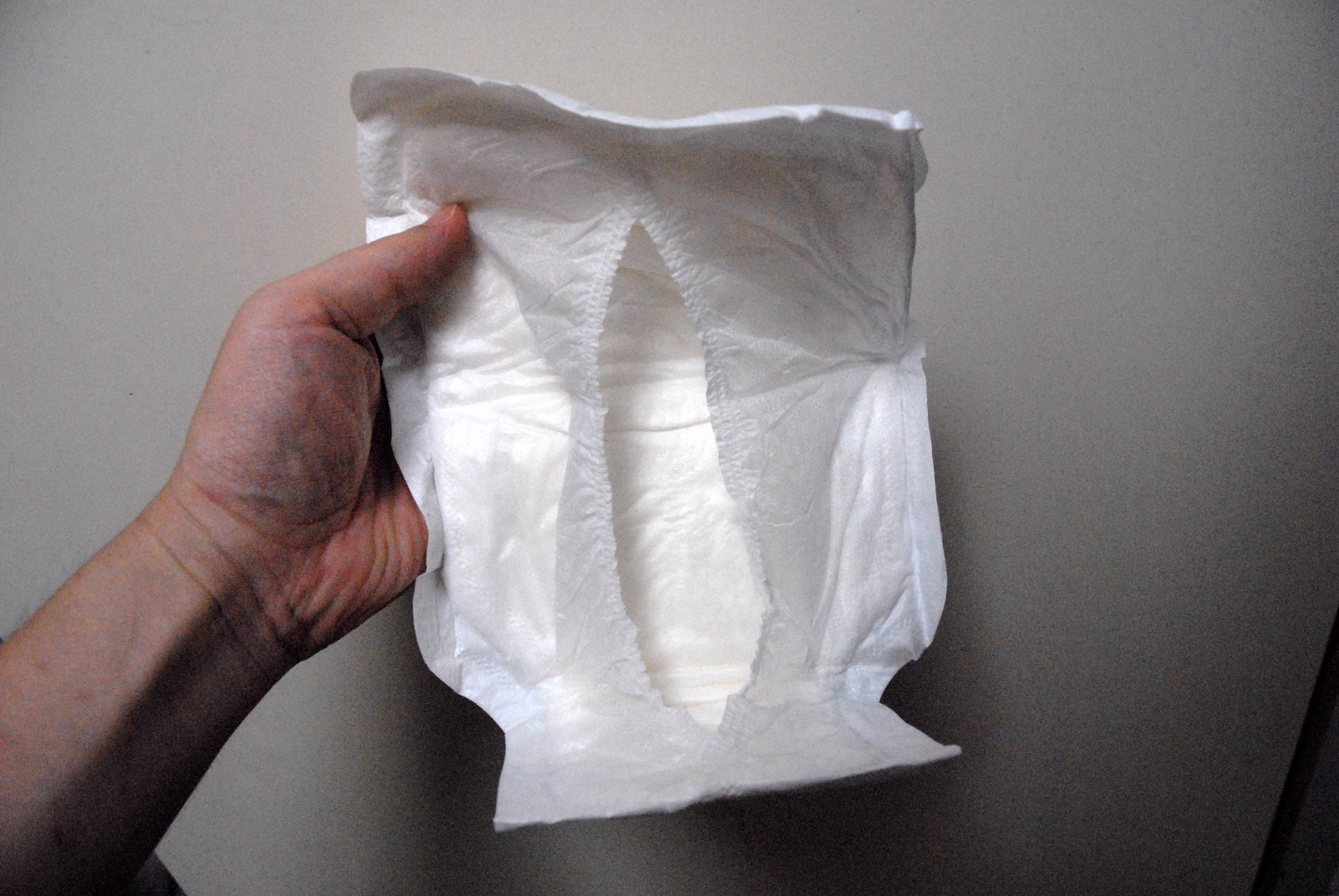 Incontinence pad for men holding penis within the slit.